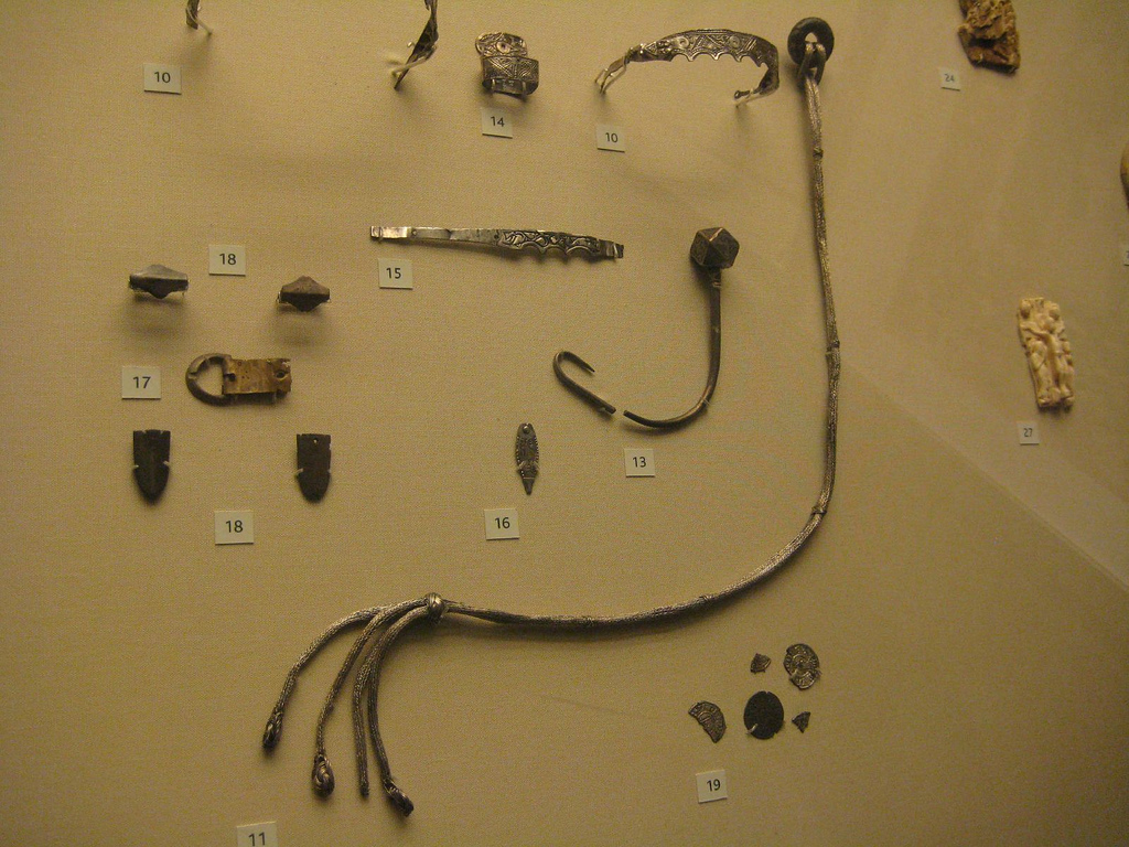 Dated approximately 872-5, based on coins in the hoard. Found at Trewhiddle, Cornwall, England 10: Curved ornamental mounts, function unknown 11: Scourge (whip) made of tube-knitted wire, with plaits and knots, with a glass bead attachment 13: Decorated pin with hollow head 15: Flattened ornamental strip of unknown function 16: Decorated strap end 17: Bronze buckle, with the tongue missing 18: Plain cast strap ends and belt slides 19: Coins and coin fragments